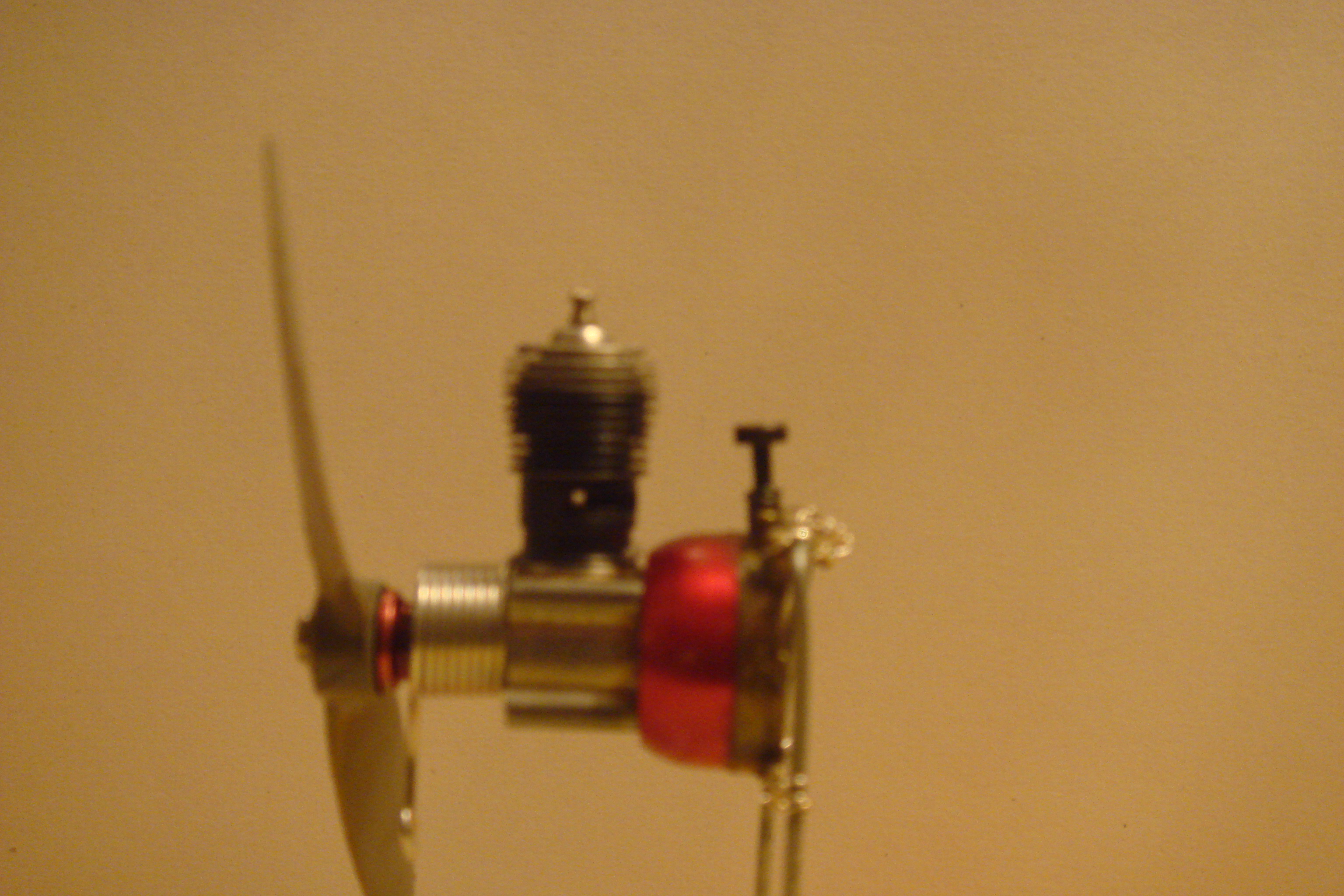 A cox Pee Wee .020 (0.33 cm³) engine, owned by Ideeman1994